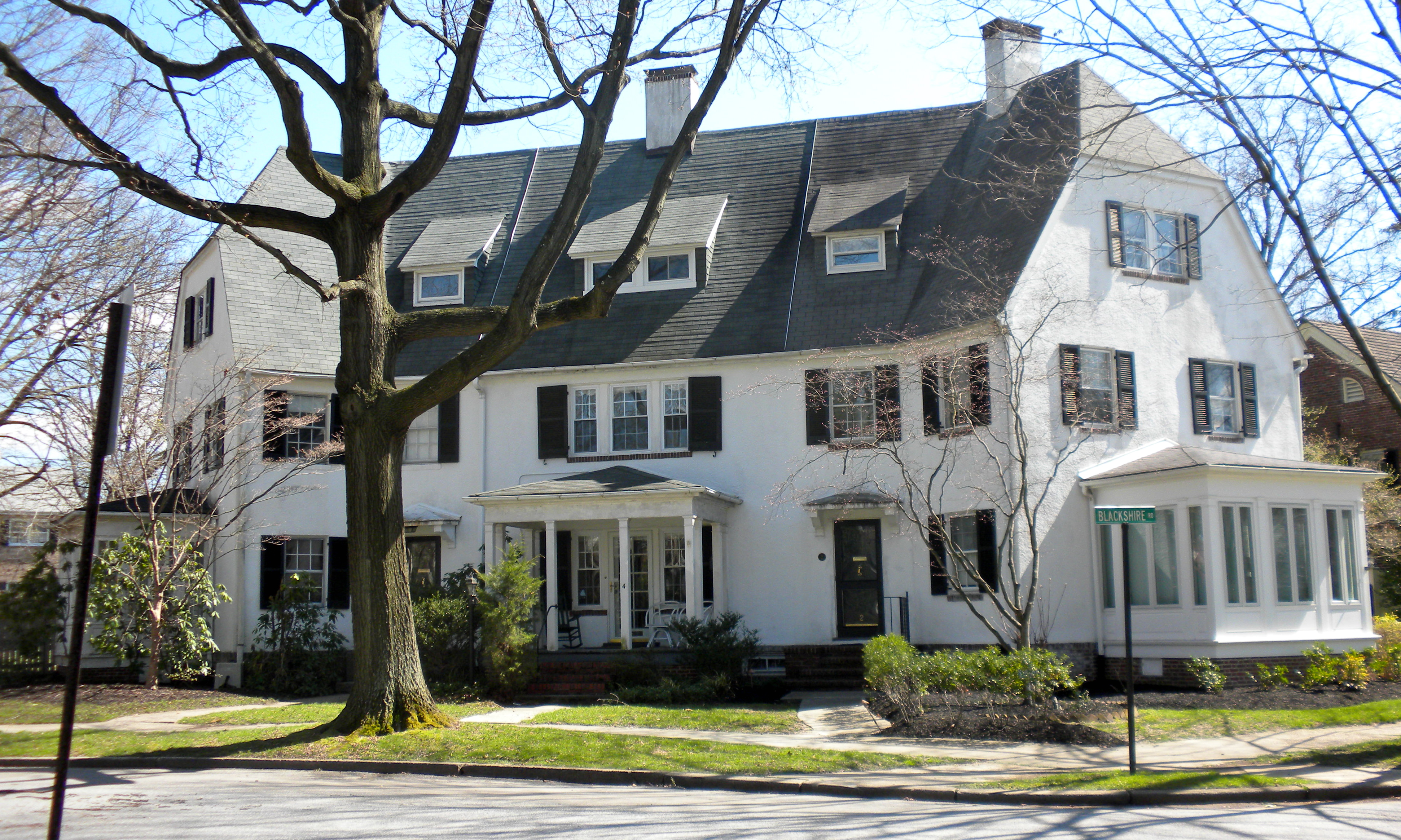 Building at 3,5,7 Crawford Circle in Wawaset Park Historic District on NRHP since January 3, 1986 District is bounded by Pennsylvania Ave., Woodlawn Ave., Seventh St., and Greenhill Ave. in Wilmington, Delaware. High class suburb-in-the-city built in the 1930s. This building is atypical of the district, which has many large separate homes in historical and local styles. But Crawford Circle may be the most interesting place in the district. It is a small (tight) traffic circle surrounded by 4 nearly identical white buildings (all look pretty much the same as this picture - even after 75 years) - yes, I did get pix of all 4, but I can't think of a reason to upload all of them! The style in white is reflected in nearby larger houses.